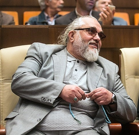 Mohammad Hashemi